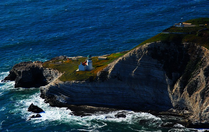 Aerial photo: Point Conception Lighthouse in Santa Barbara County, California. A few additional structures are just out of frame to the right in this view toward the northwest.